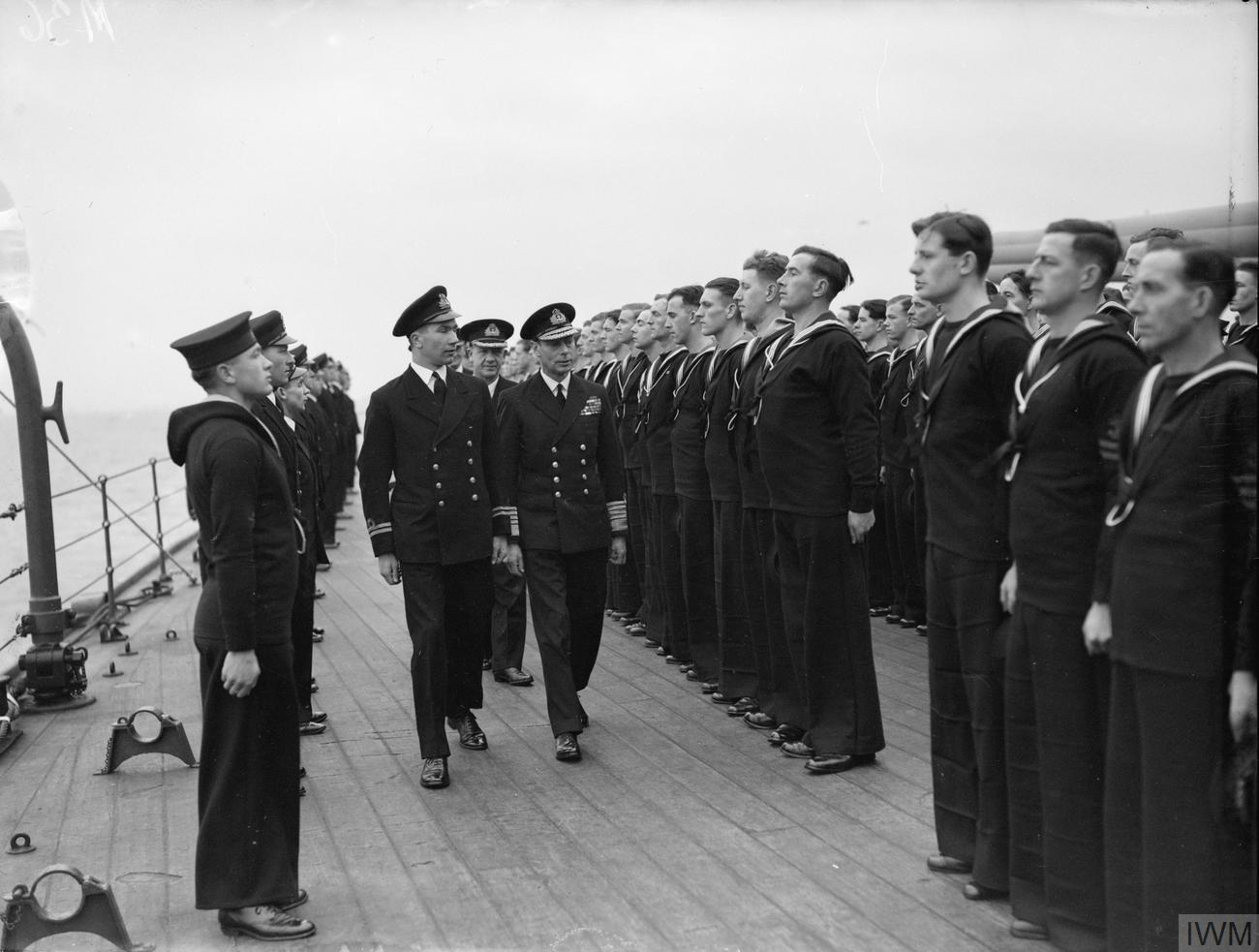 The King Pays 4-day Visit To the Home Fleet. 21 March 1943, Scapa Flow, Wearing the Uniform of An Admiral of the Fleet, the King Paid a 4-day Visit To the Home Fleet. His Majesty The King inspecting divisions on board the Flagship HMS KING GEORGE V.